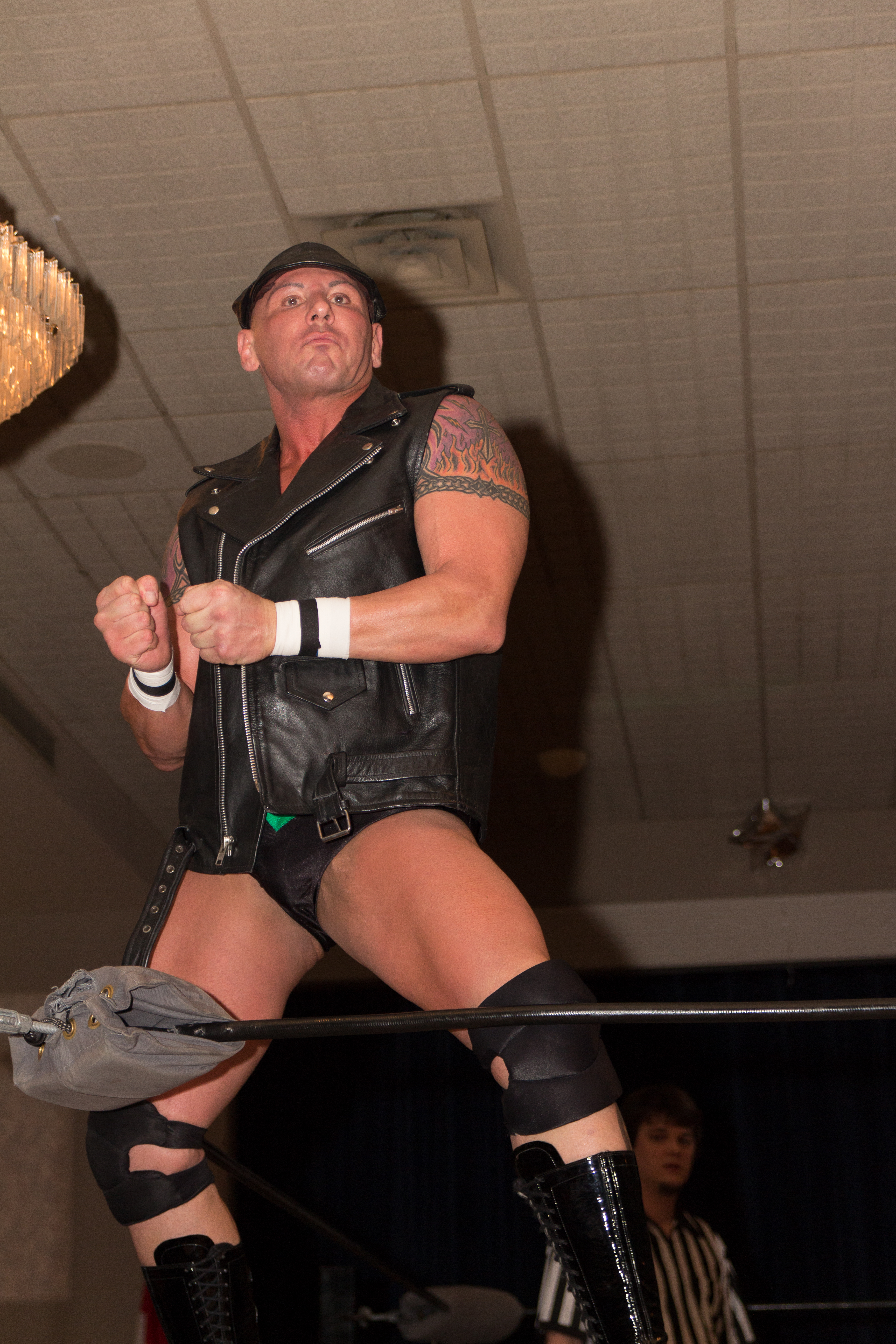 Vito Lo Grasso, aka Big Vito, making his entrance at the Hardcore Roadtrip's Born 2B Wired show in London, ON